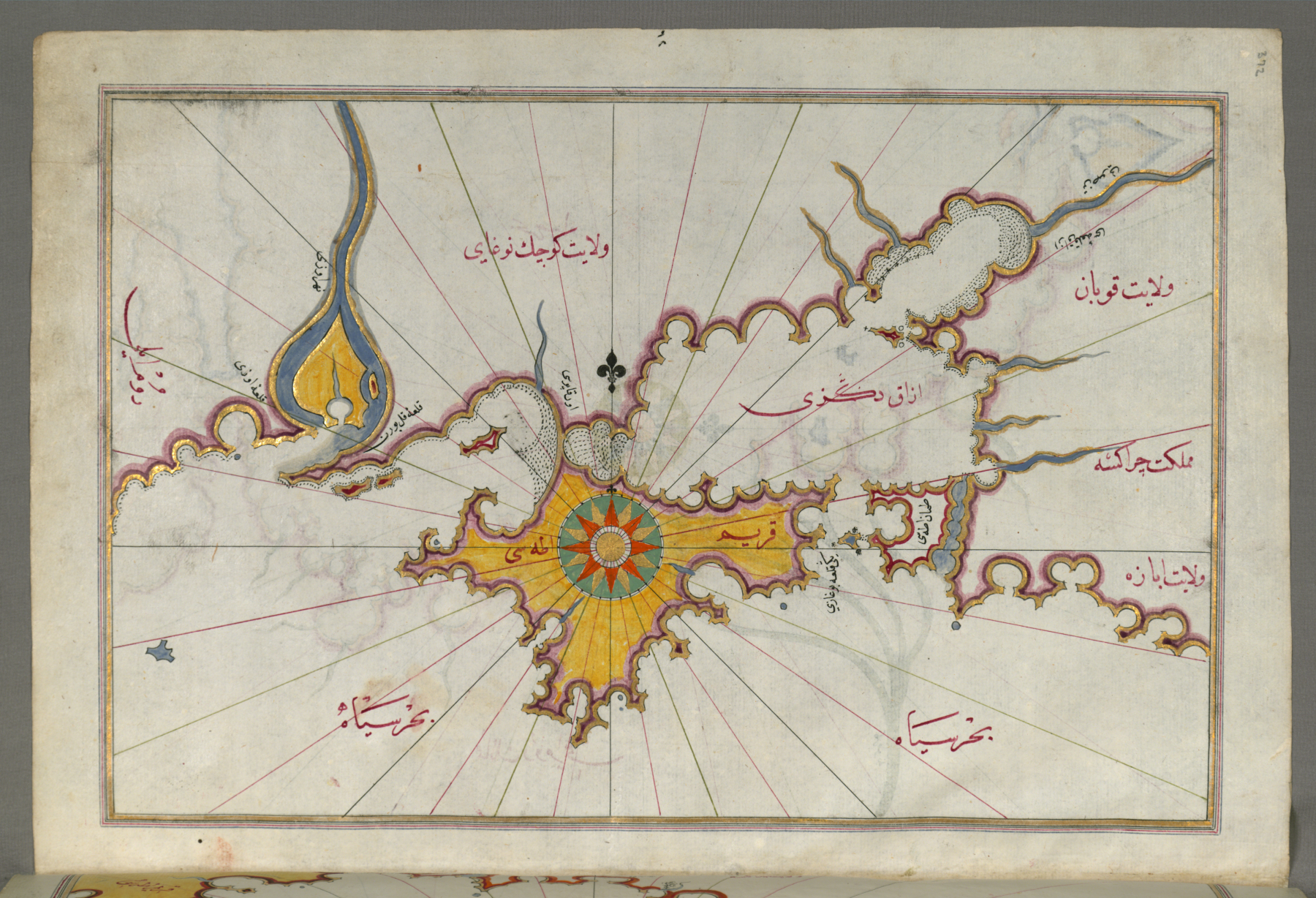 This folio from Walters manuscript W.658 contains a map of the Crimea (Qrim), the Sea of Azov, and the mouth of the Dnieper.